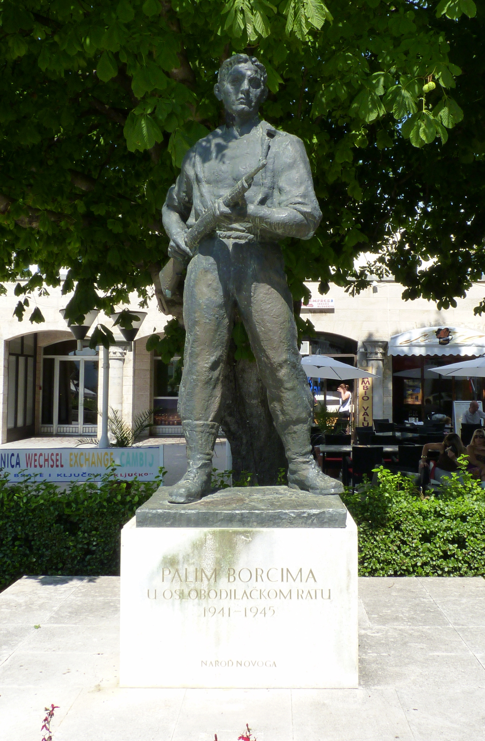 Novi Vinodolski, Primorje-Gorski Kotar County, Croatia